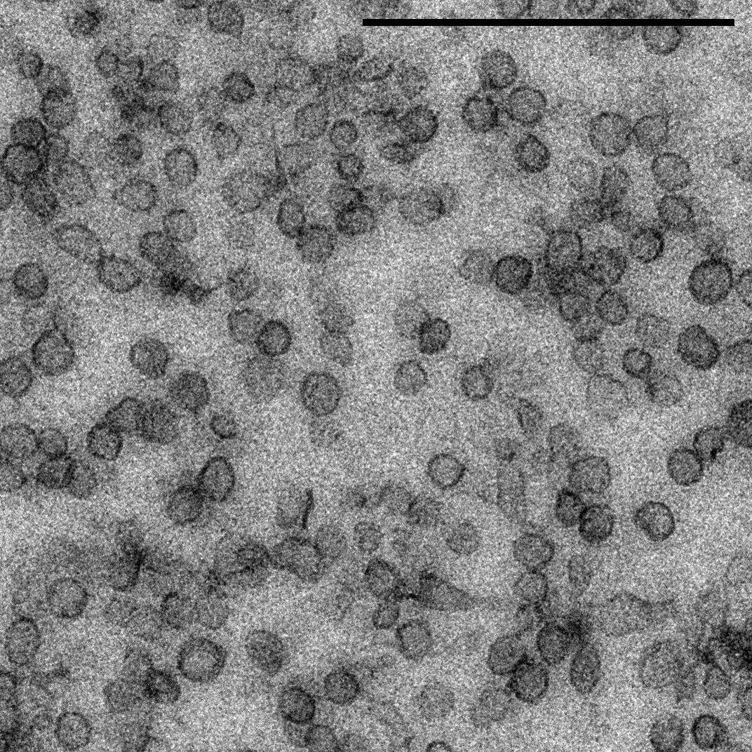 Yeast (S. cerevisiae) secretory vesicles isolated according to: RW Klemm, CS Ejsing, MA Surma, HJ Kaiser et. al.. Segregation of sphingolipids and sterols during formation of secretory vesicles at the trans-Golgi network. „The Journal of cell biology”. 185, ss. 601-12 (May 2009). PMID 19433450 and visualized using intermediate voltage electron microscopy after staining with uranyl acetate and lead citrate. The black bar is 1000nm.